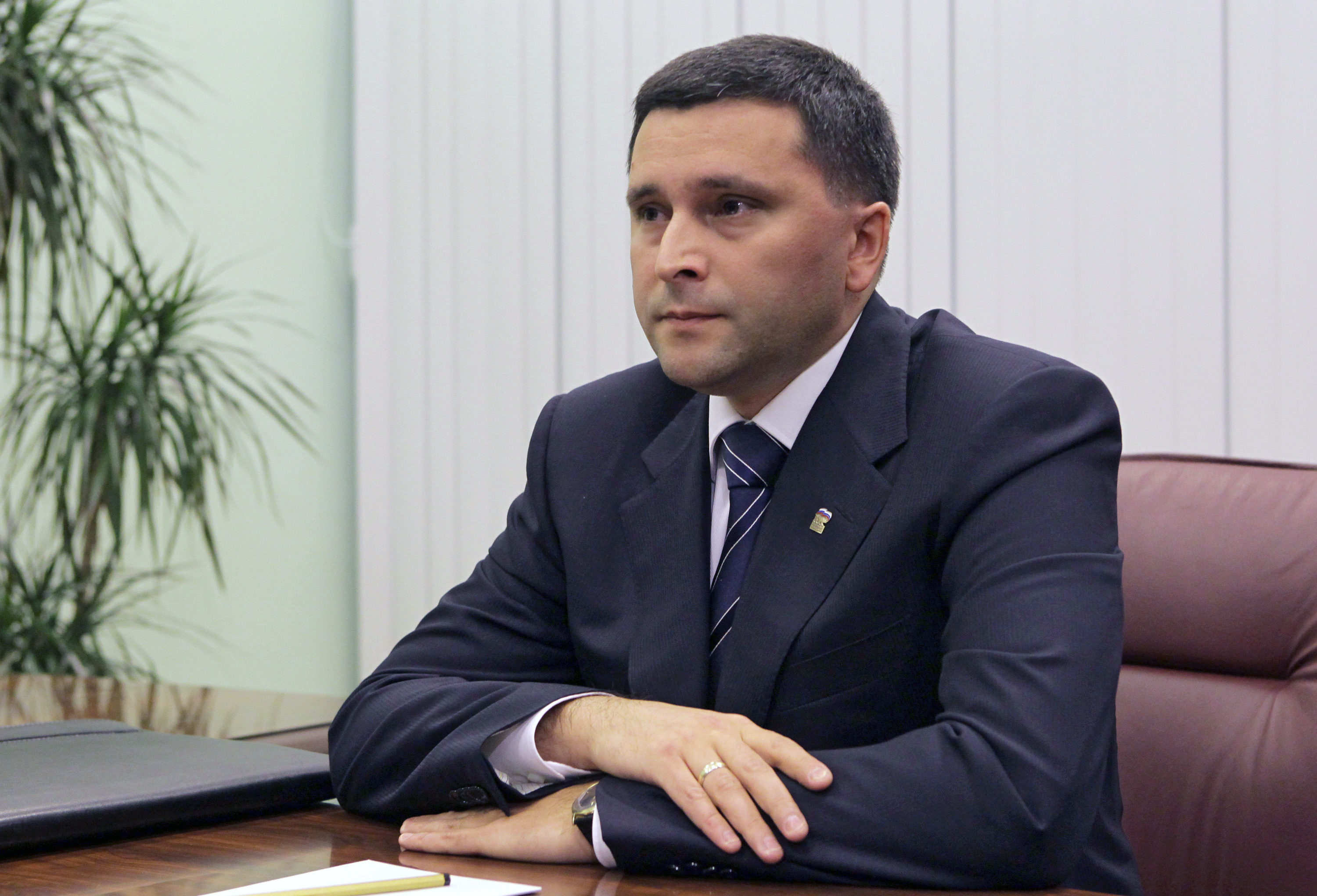 Yamalo-Nenets Autonomous Area Governor Dmitry Kobylkin meeting with Prime Minister Vladimir Putin